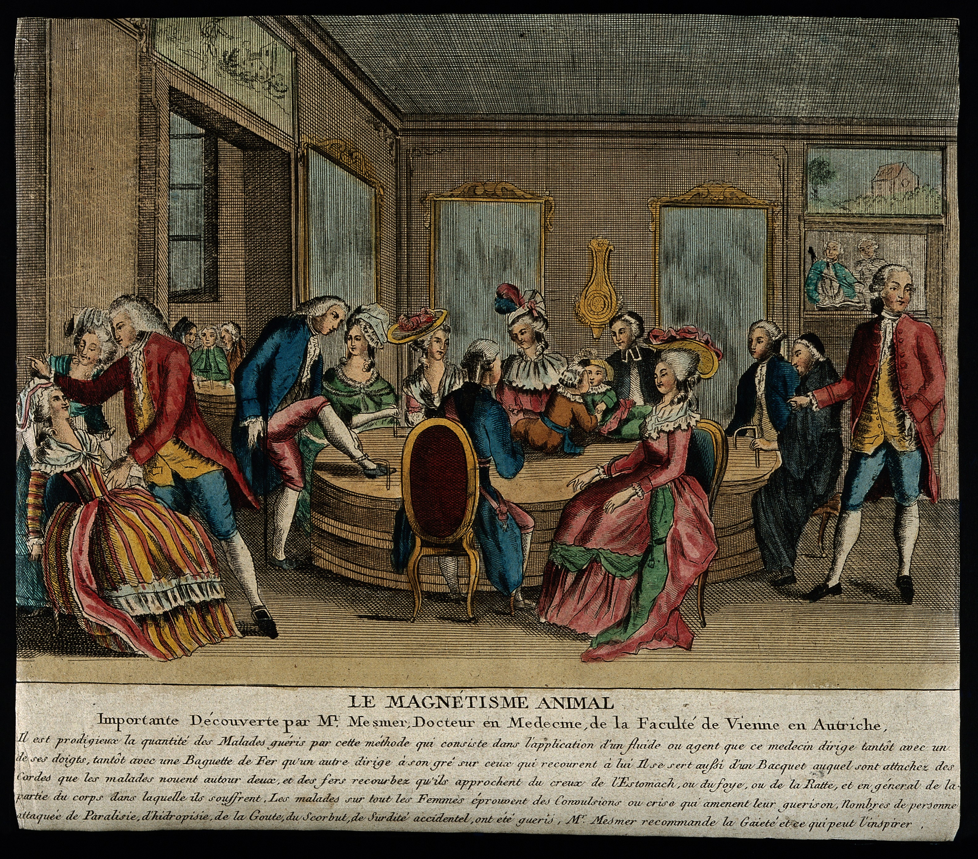 Patients in Paris receiving Mesmer's animal magnetism therapy. Coloured etching. Iconographic Collections Keywords: Franz Anton Mesmer